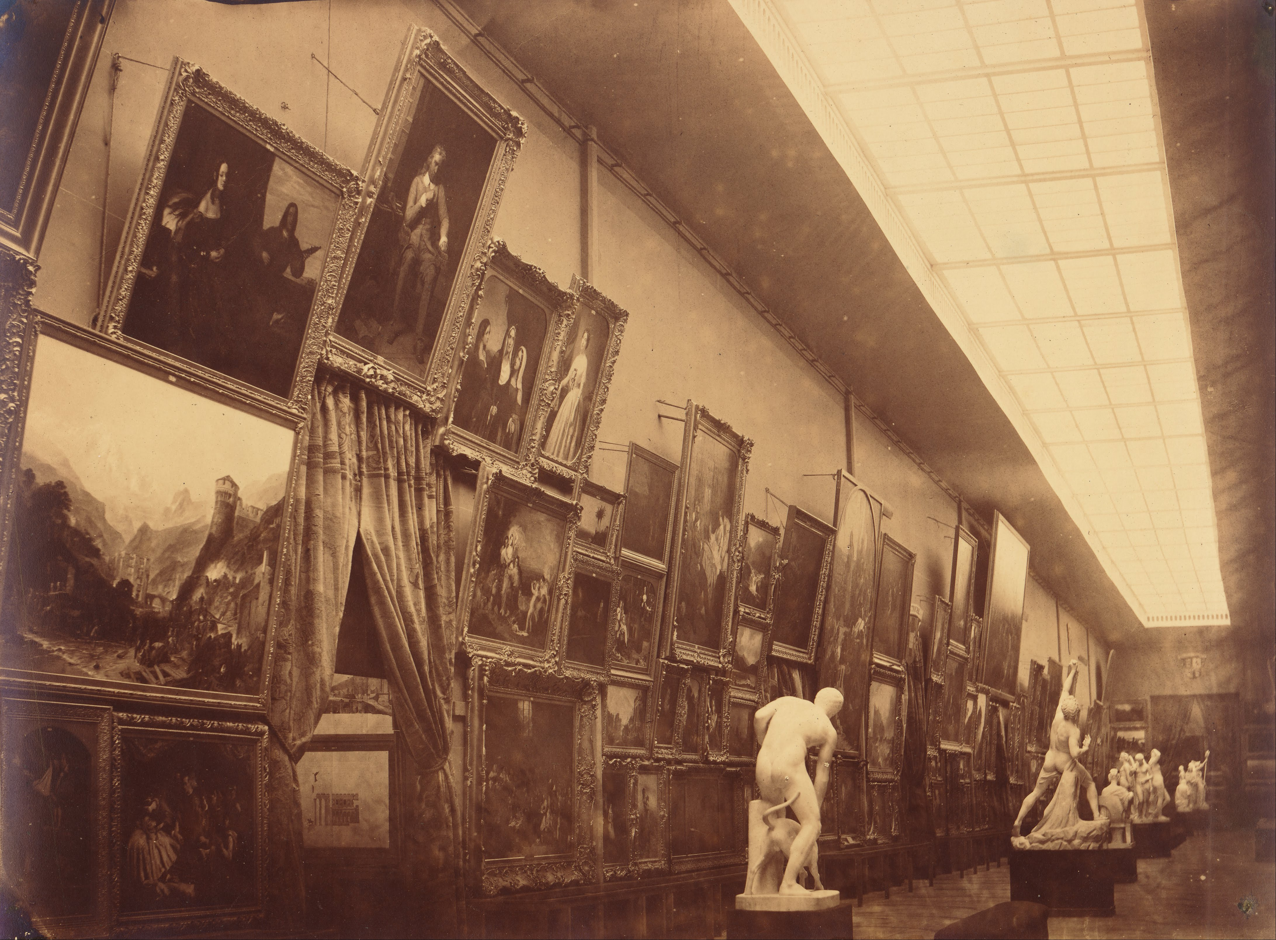 View of the English Gallery exhibiting sculptures and paintings at the Universal Exhibition of 1855 in Paris.